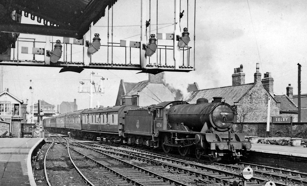 A stopping train from Hull enters Selby station, off the swing-bridge. View NE, towards York on the ECML (ex-North Eastern section), also Hull. The 12.30 local from Hull is headed by Gresley D49/4 'Hunt' 4-4-0 No. 62761 'The Derwent'. (For further description see SE6132 : Up freight entering Selby station off the swing-bridge).